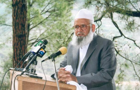 Shaykh Muhammad Imdad Hussain Pirzada delivering a talk at the opening ceremony of Al-Karam Village, Azad Kashmir